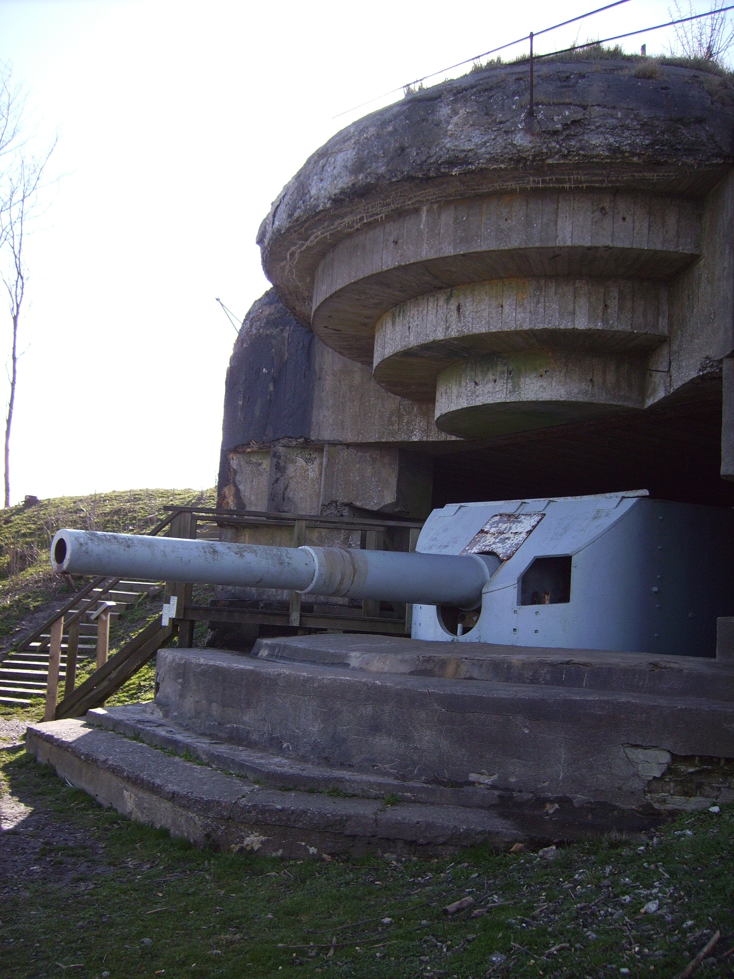 “Bangsbo Fort” in Frederikshavn in northeast Denmark, with German bunkers from World War II, built during the German occupation of Denmark between 1940 and 45